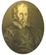 Martin Garzez (d. 1601)